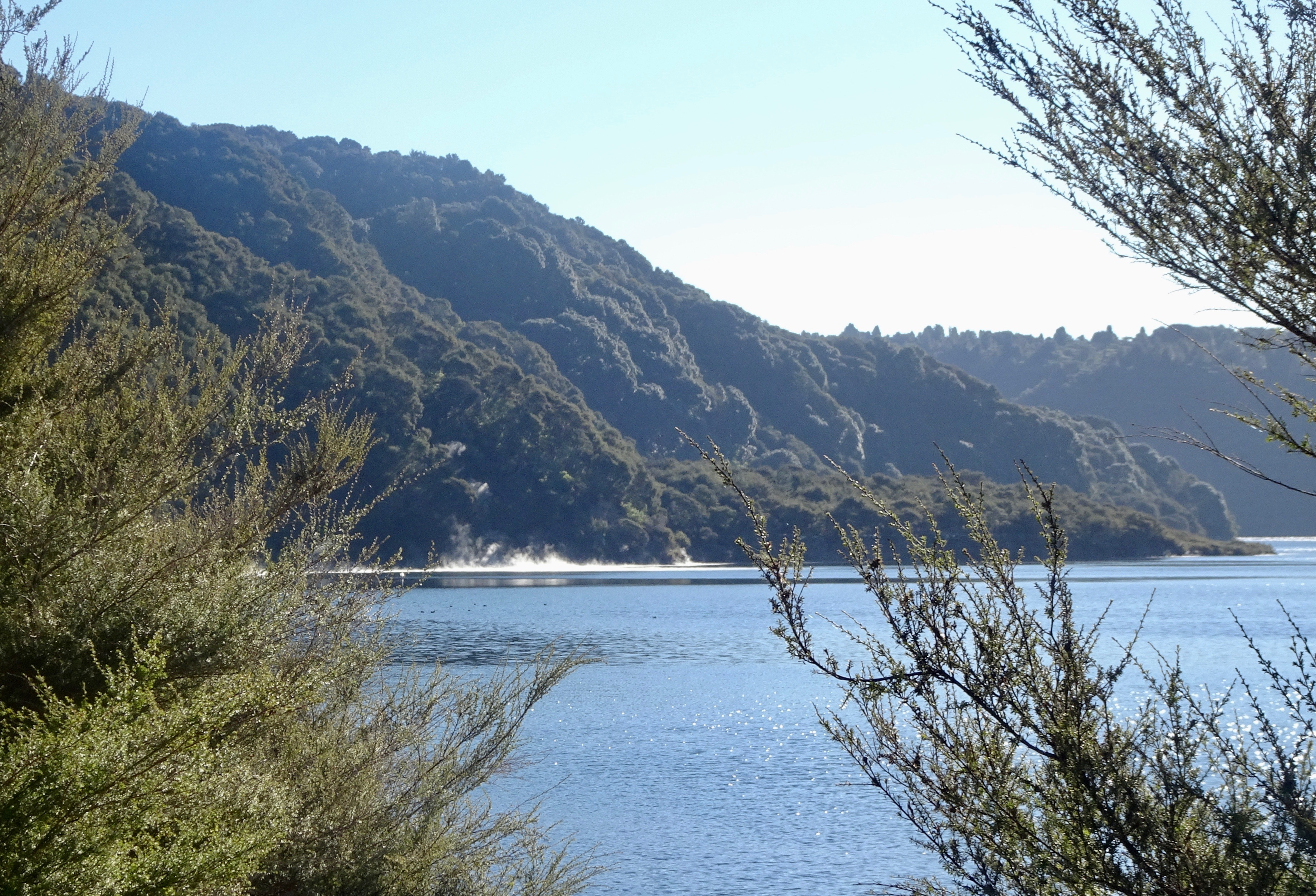 Te Rata Bay from Tarawera Track